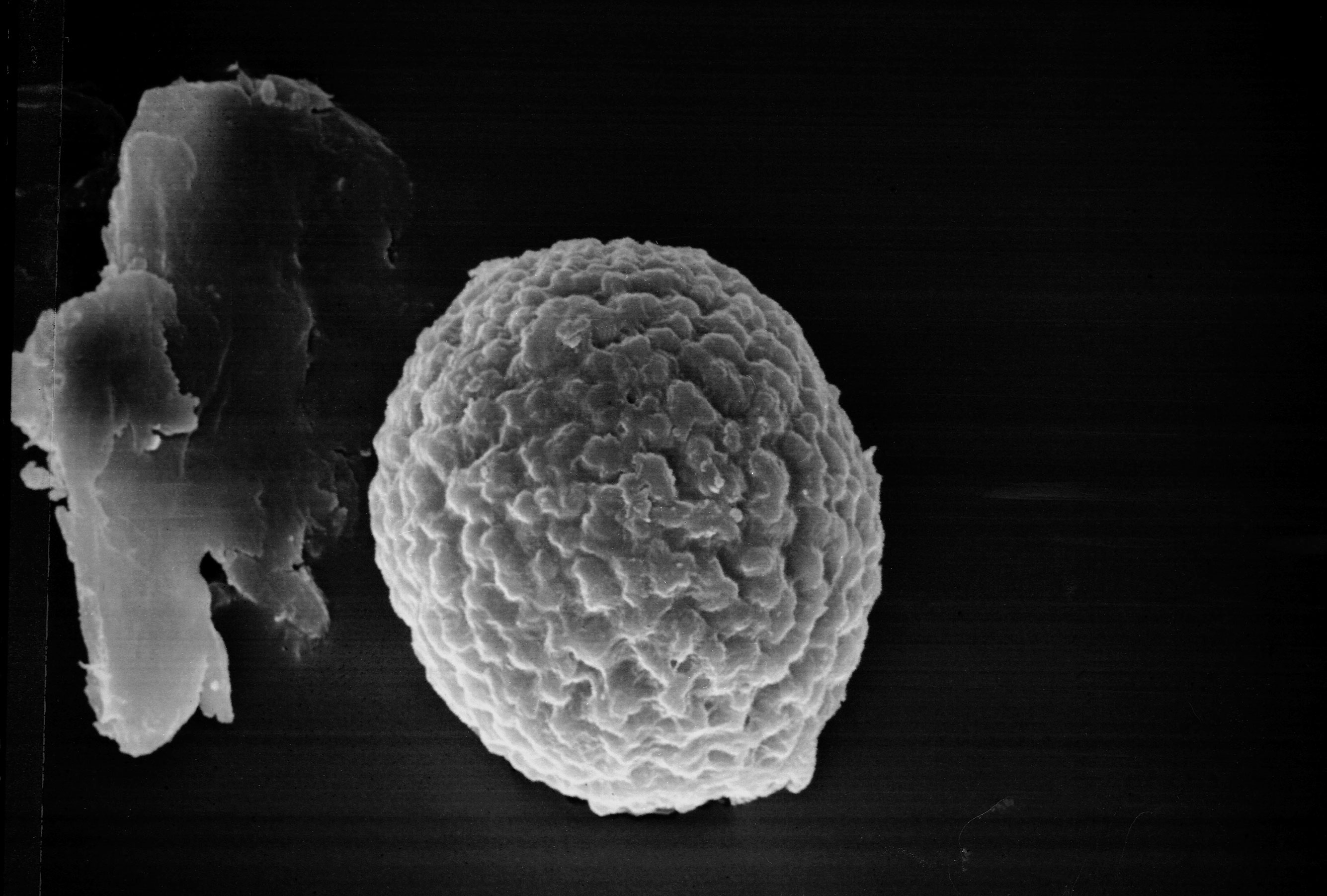 Karnal bunt spore. Magnified about 2,000x. Photos by Jim Plaskowitz.